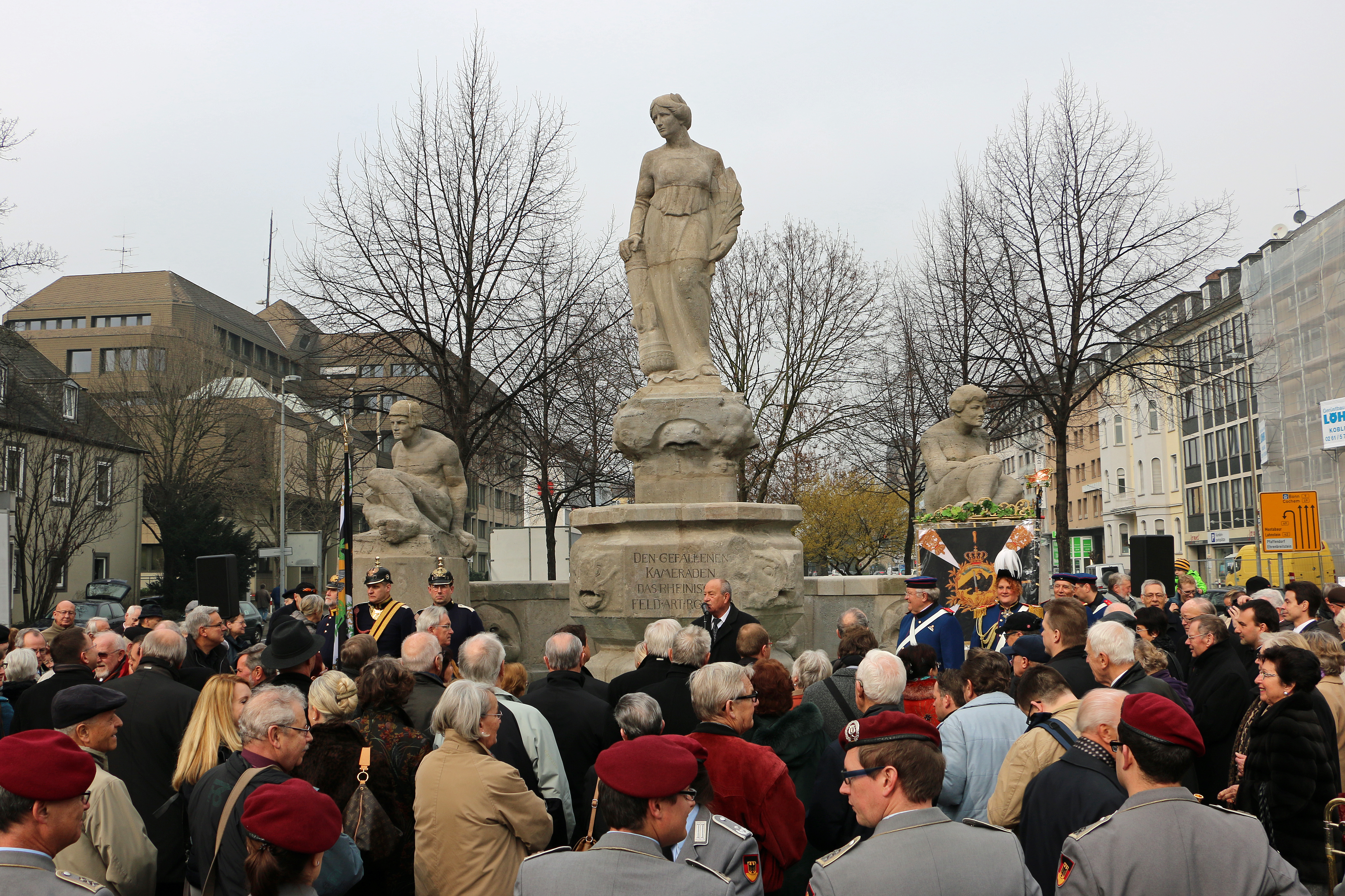 Barbara monument in Koblenz